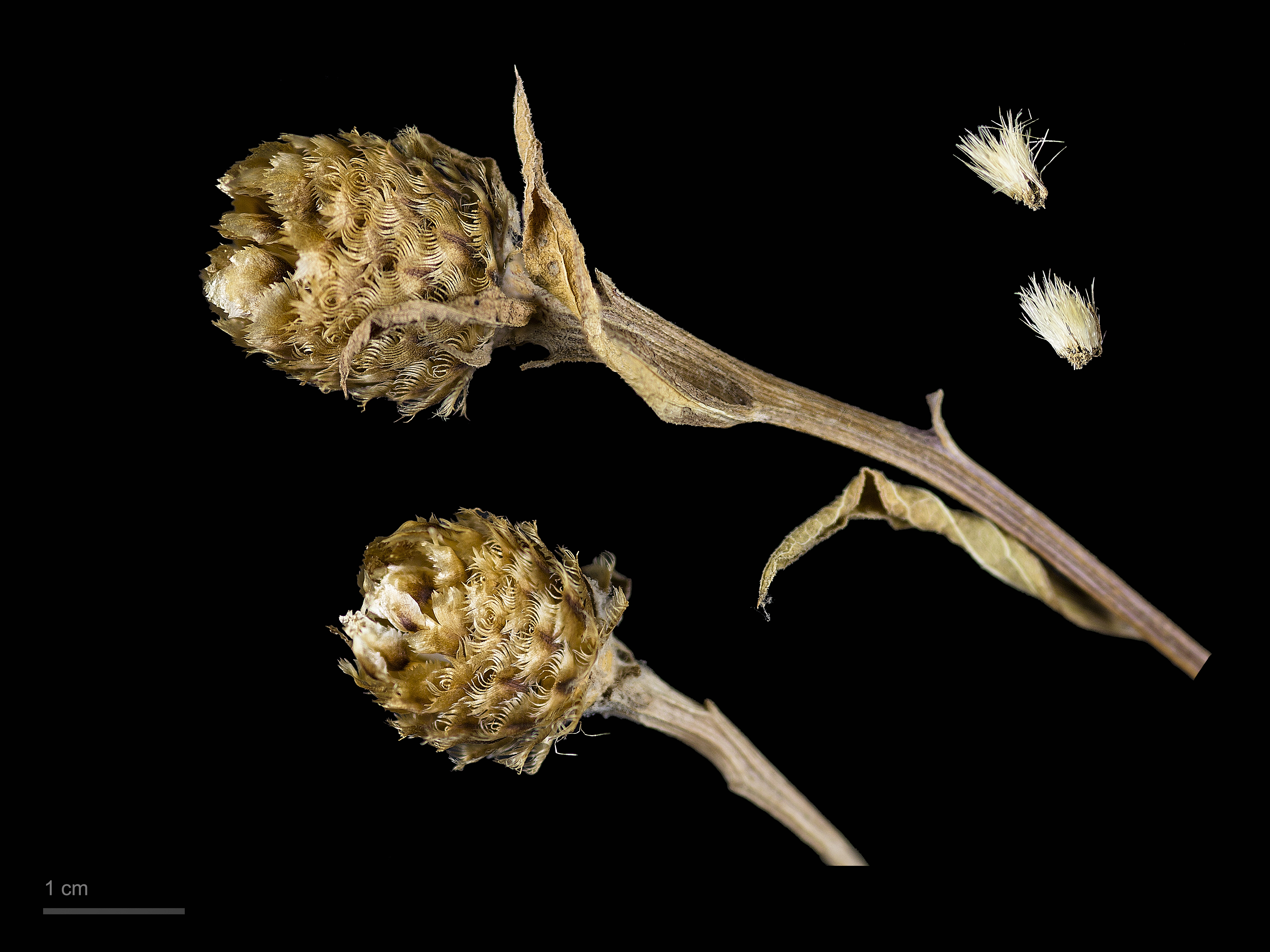 Lesser Knapweed , fruits and seeds